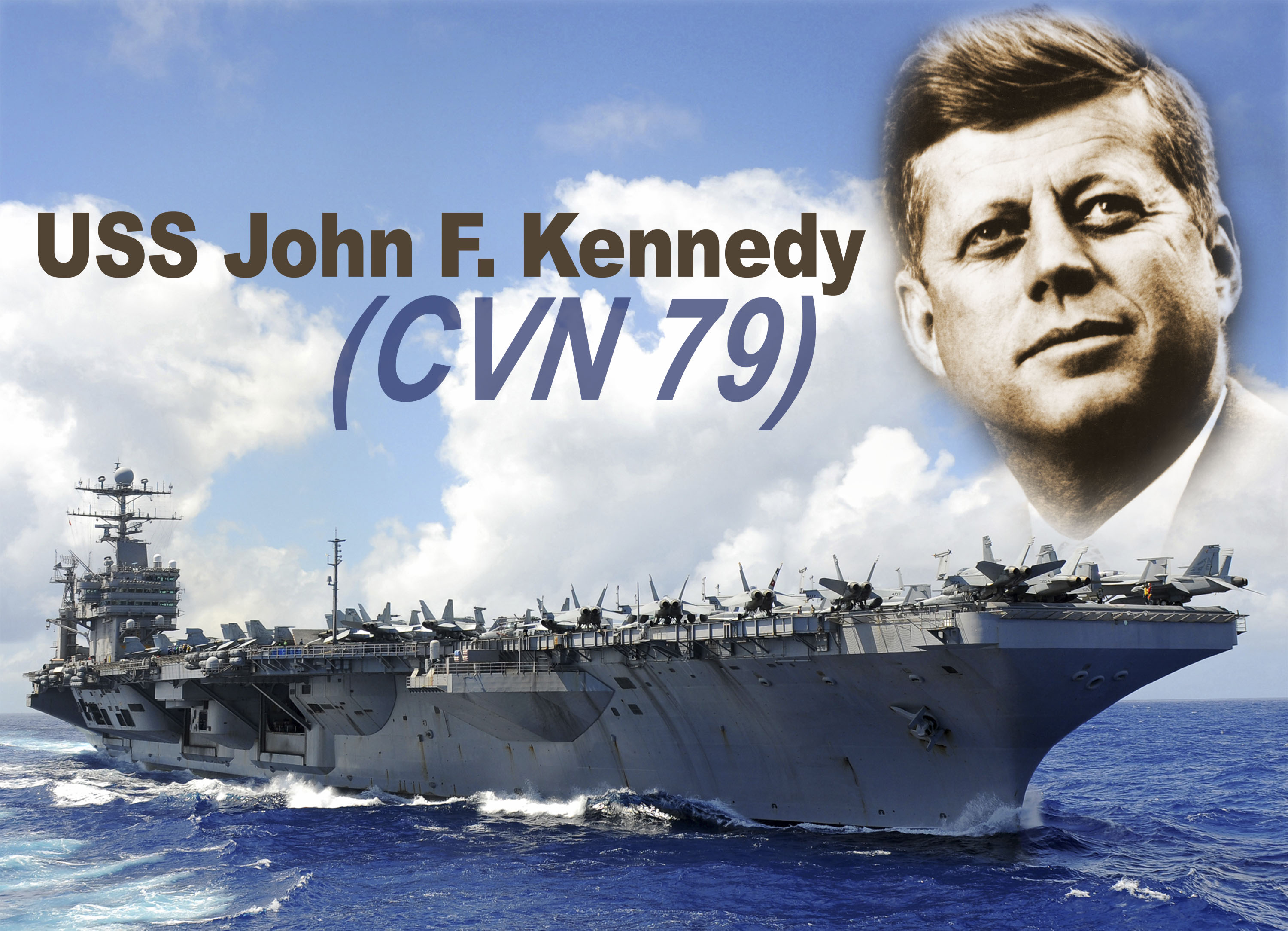 WASHINGTON (May 27, 2011) A photo illustration of the Ford-class aircraft carrier depicting the future USS John F. Kennedy (CVN 79). (The ship shown in this photo illustration is actually the USS Abraham Lincoln (CVN-72), a Nimitz-class vessel.) (U.S. Navy photo illustration by Mass Communication Specialist 2nd Class Jay M. Chu/Released)